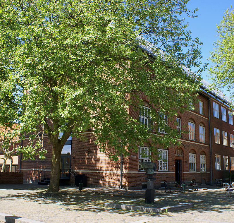 The Artmuseum in Køge for Drawings, Sketches amd Outlines Køge; Denmark